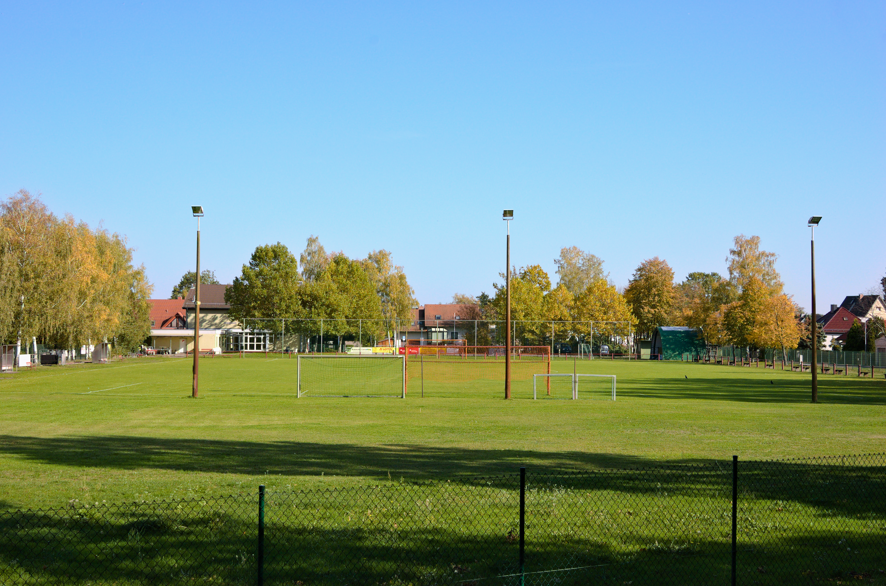 Sports venue at Turnstraße in Cottbus-Kiekebusch.